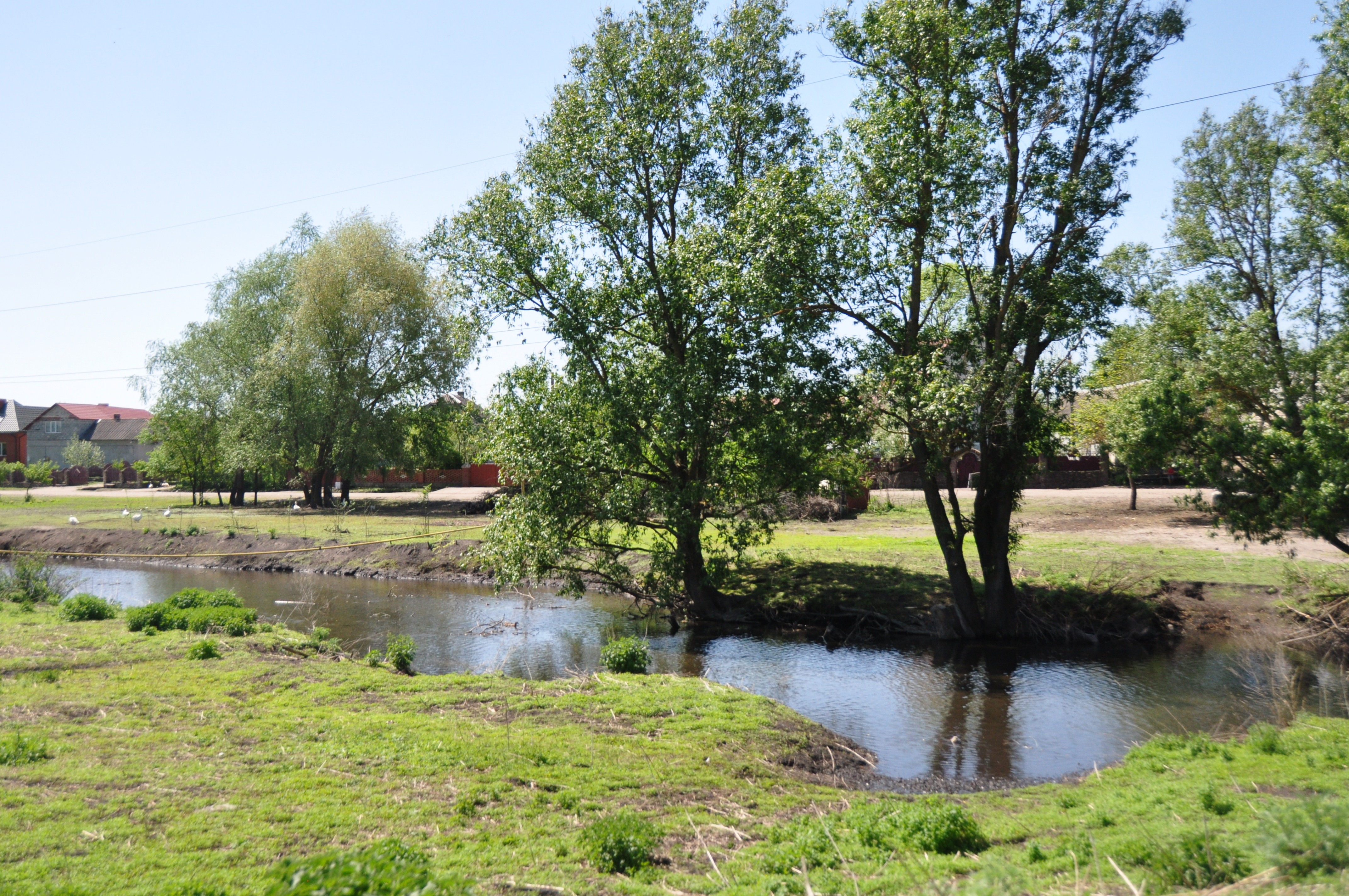 Tiucha River, tributary of Seret in Zadrist village, Ternopil Oblast